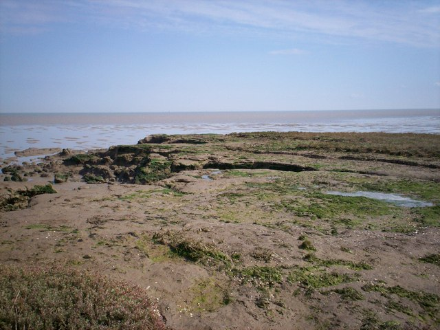 Tillingham Marshes - far eastern edge. At the far eastern edge of the Tillingham Marshes - perhaps the most isolated place in Essex.